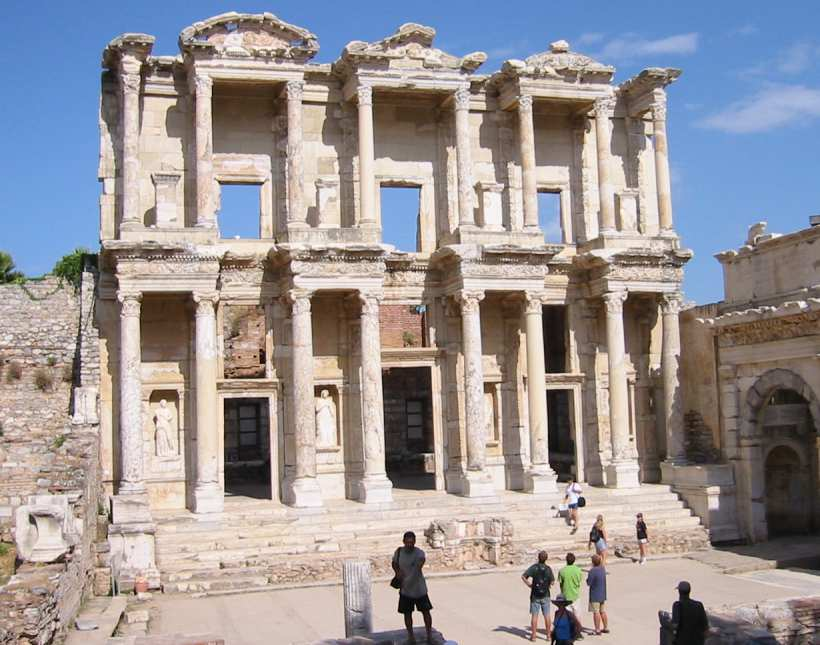 Gallery in Ephesus